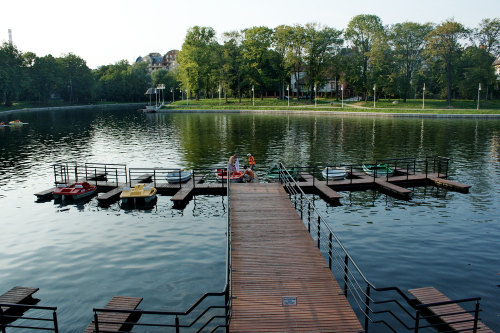 Berth in the park